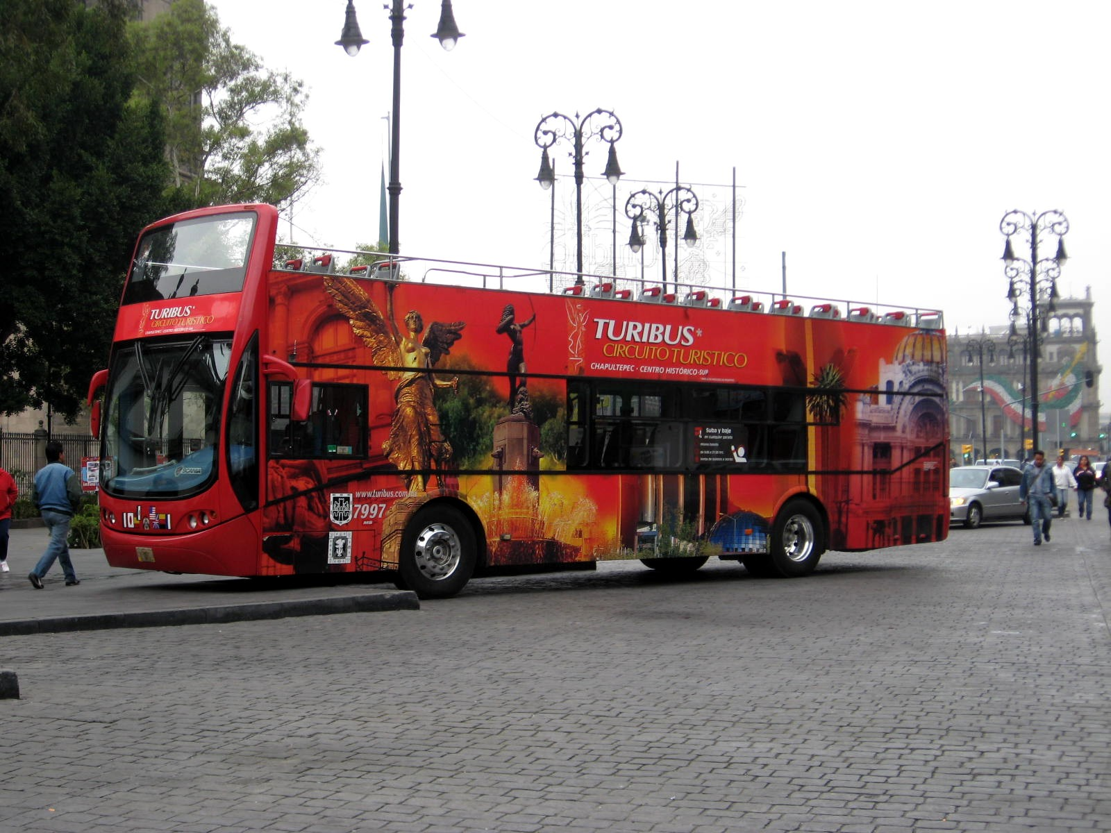 A tourbus near the Zocalos of Mexico City